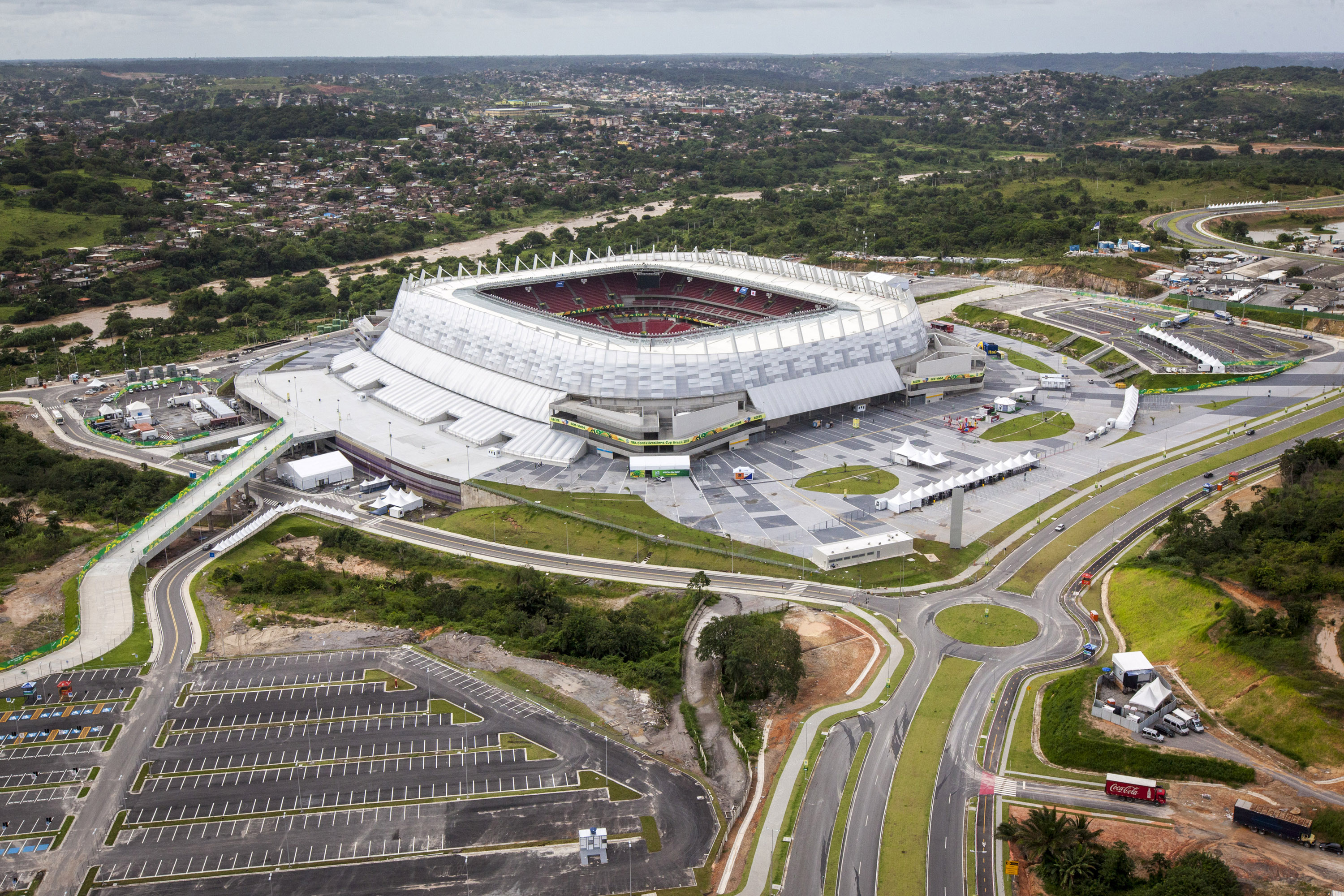 Itaipava Pernambuco Arena on June, 2013